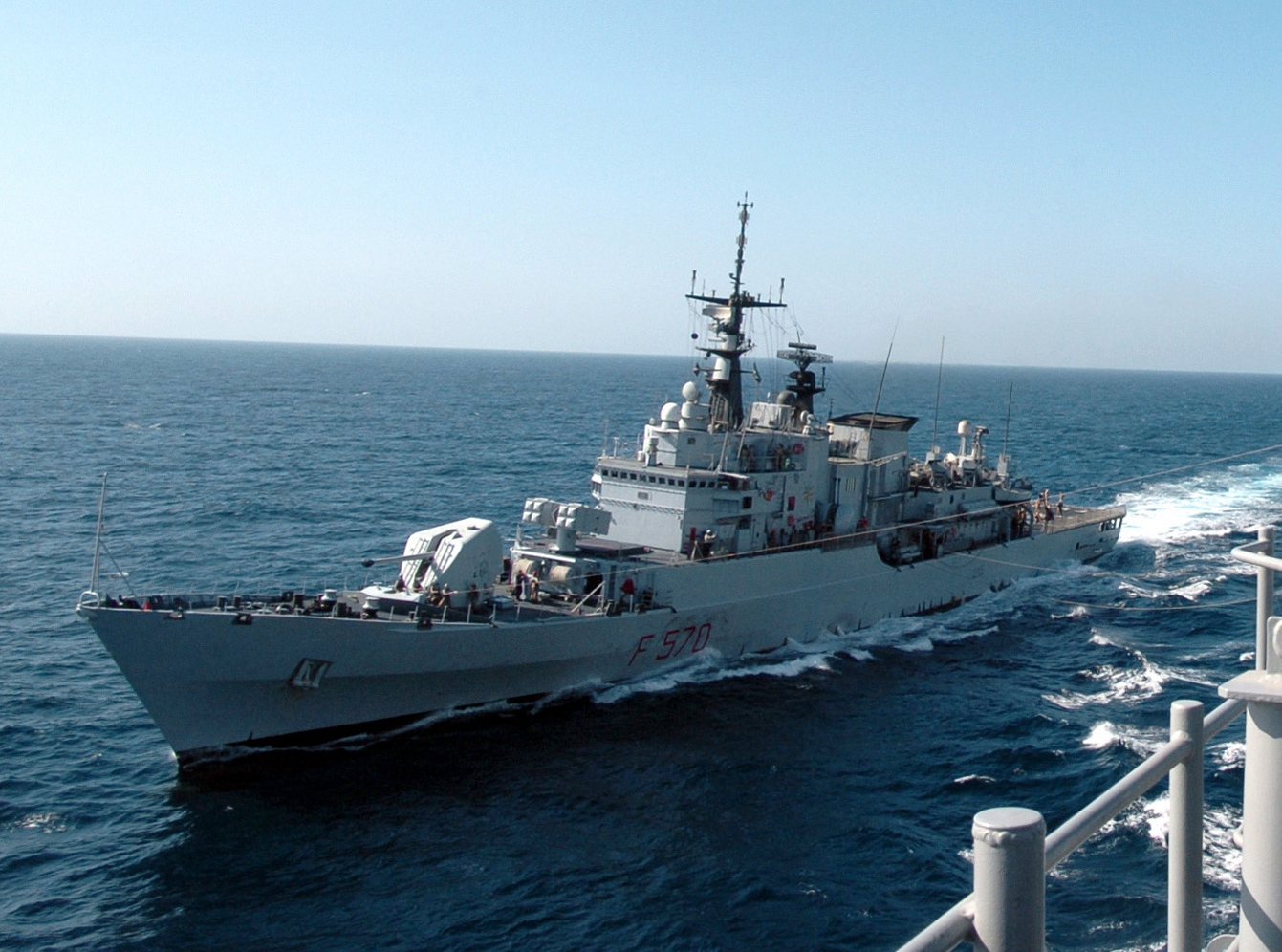 051130-N-7217H-015 Indian Ocean (Nov. 30, 2005) - The Italian Maestrale class frigate ITS Maestrale (F570) prepares to take on fuel along side the amphibious assault ship USS Tarawa (LHA-1) during an underway replenishment in the Indian Ocean.